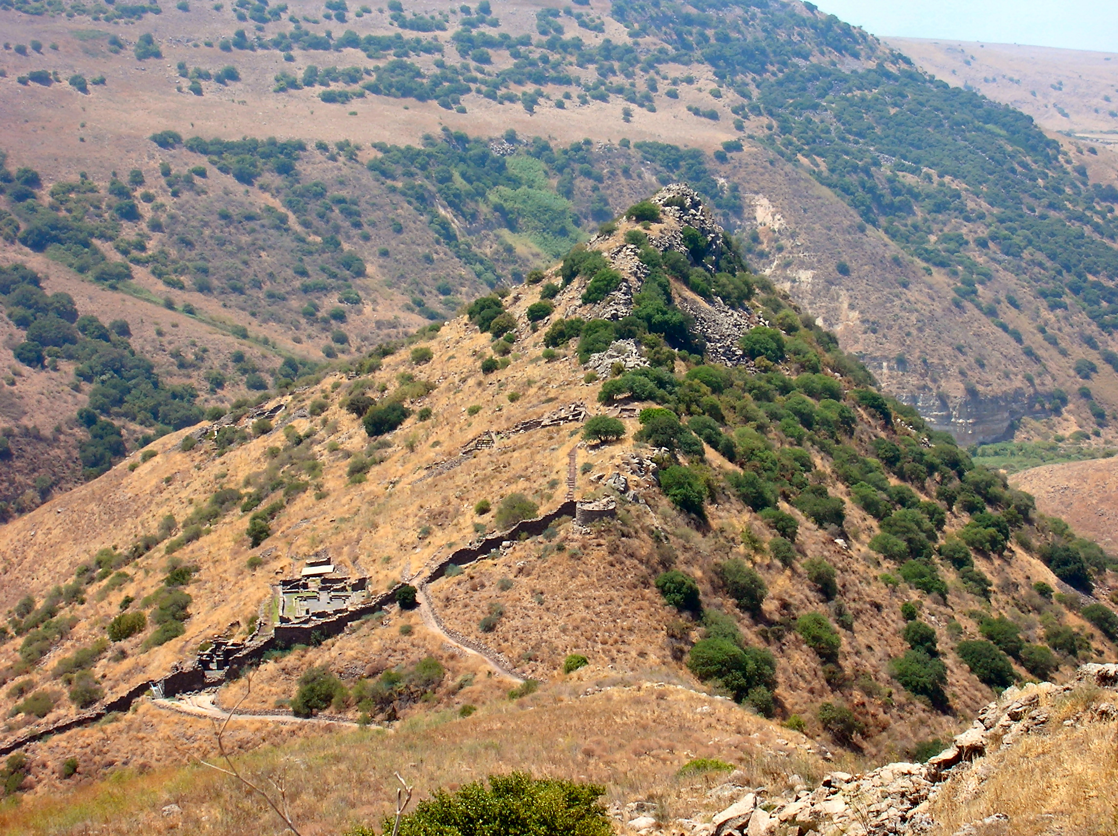 Gamla view